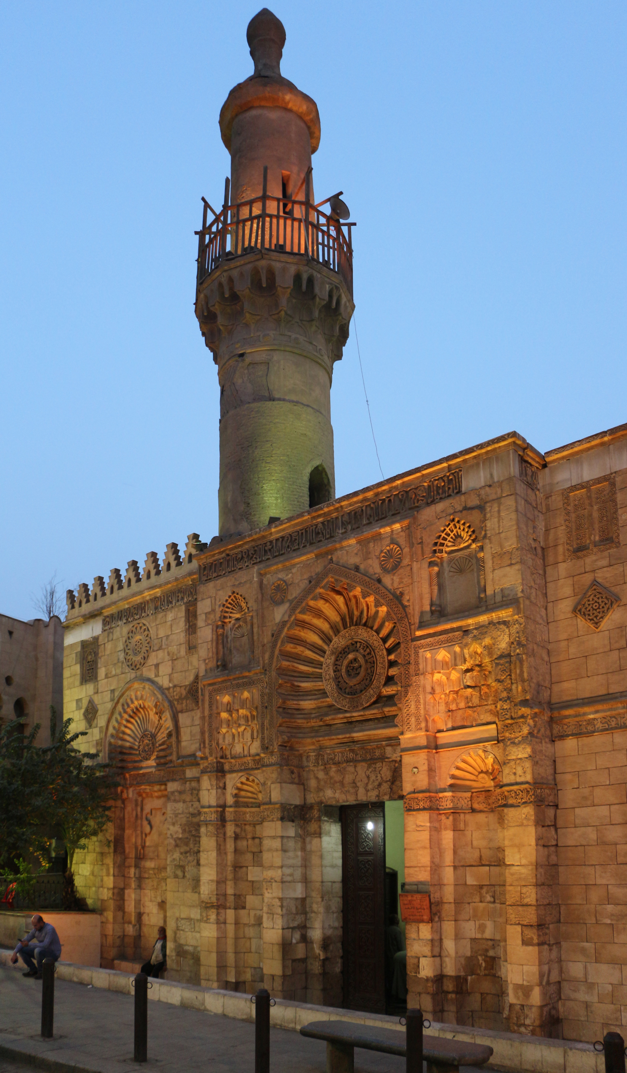 Al-Aqmar Mosque